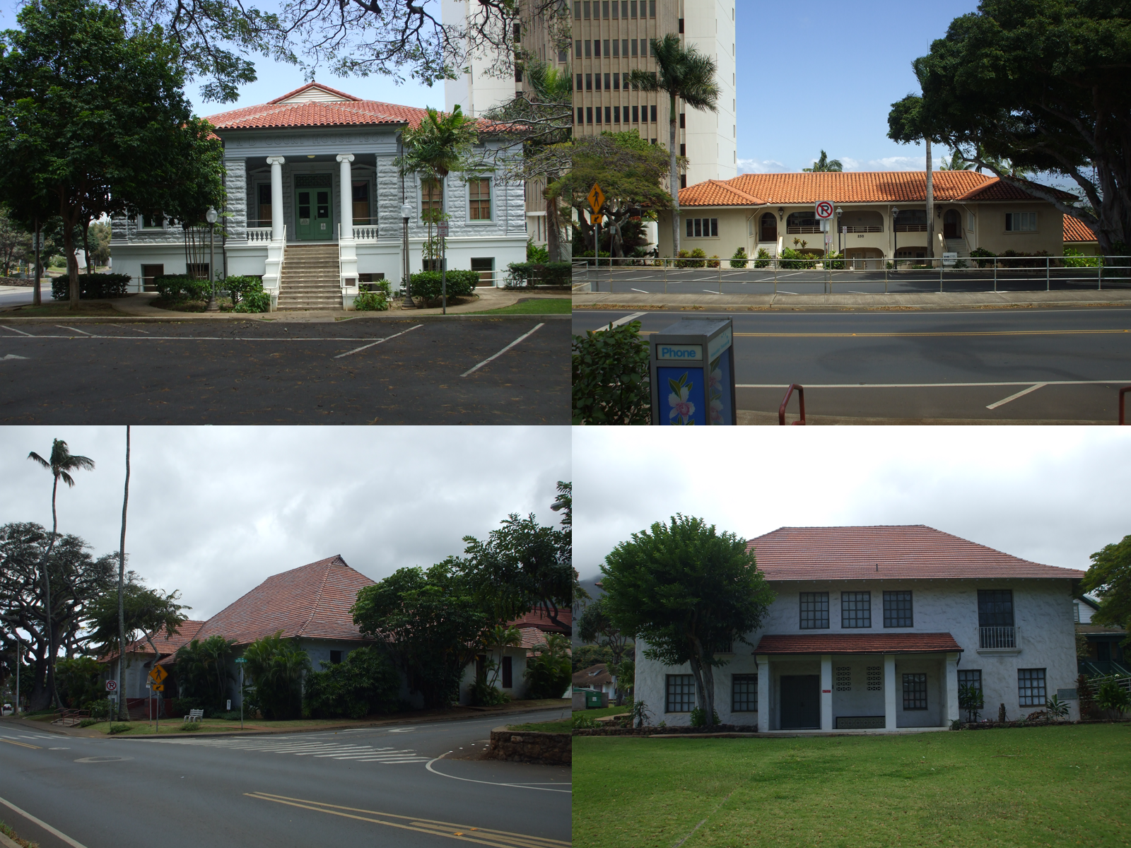 Wailuku Civic Center Historic District Top row, left to right: Courthouse, Kalana Pakui Building/Old Police Station Bottom row, left to right: Wailuku Library, Territorial Building